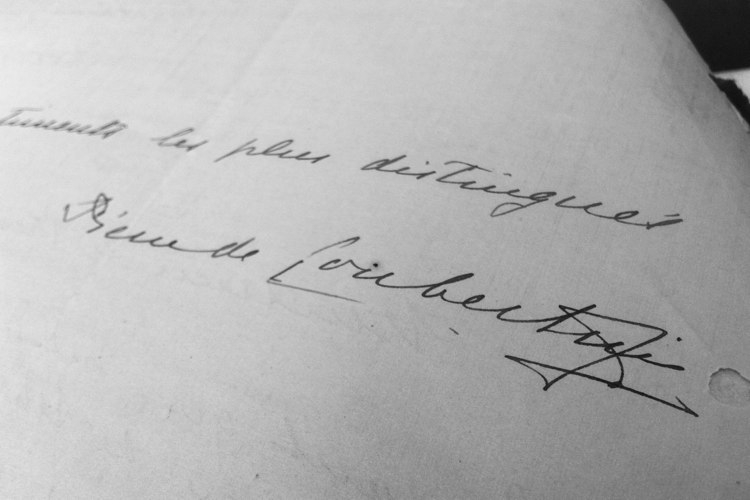 Signature of Pierre de Coubertin (International Olympic Committee) Archives of the International Committee on Intellectual Cooperation (League of Nations), UN Geneva. Source: Grandjean, Martin (2013) Archives en images : Quelques aperçus de la Commission de coopération intellectuelle.